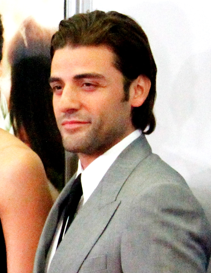 Oscar Isaac attending the New York Premiere of Won't Back Down in September 22, 2012.